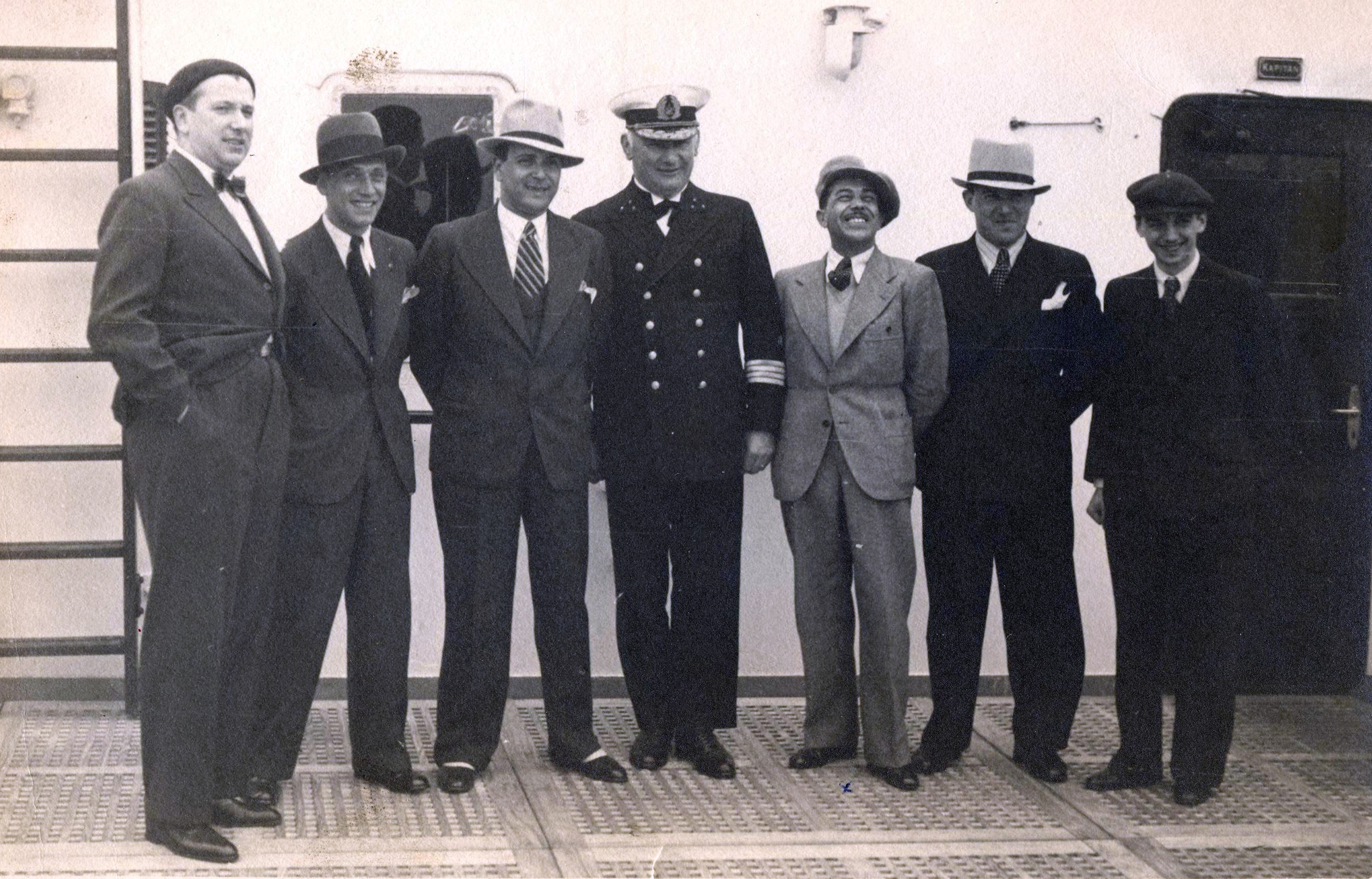 Comedian Harmonists, Bremen Steamboat, 1934.